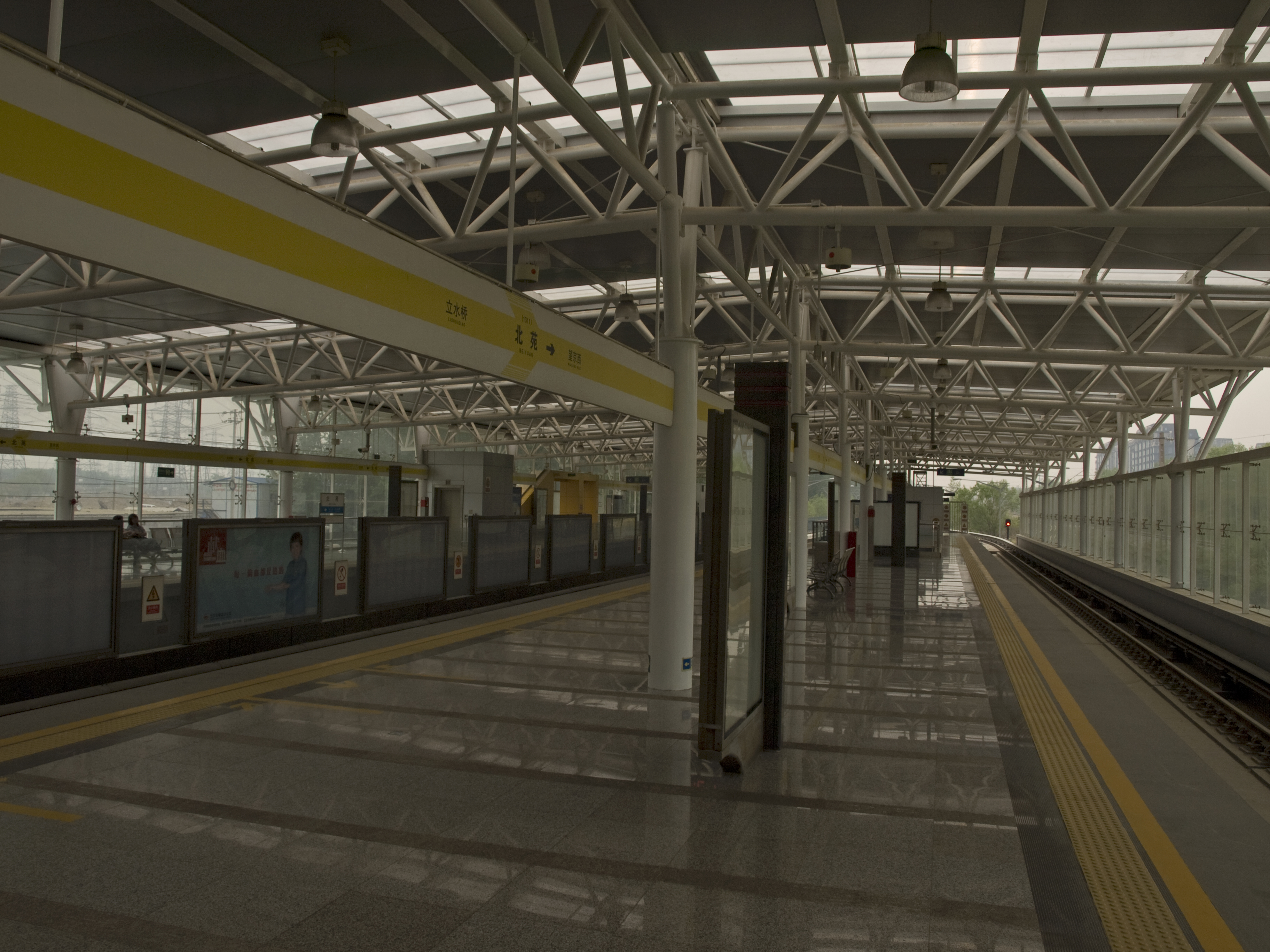 Beiyuan station, Beijing Subway